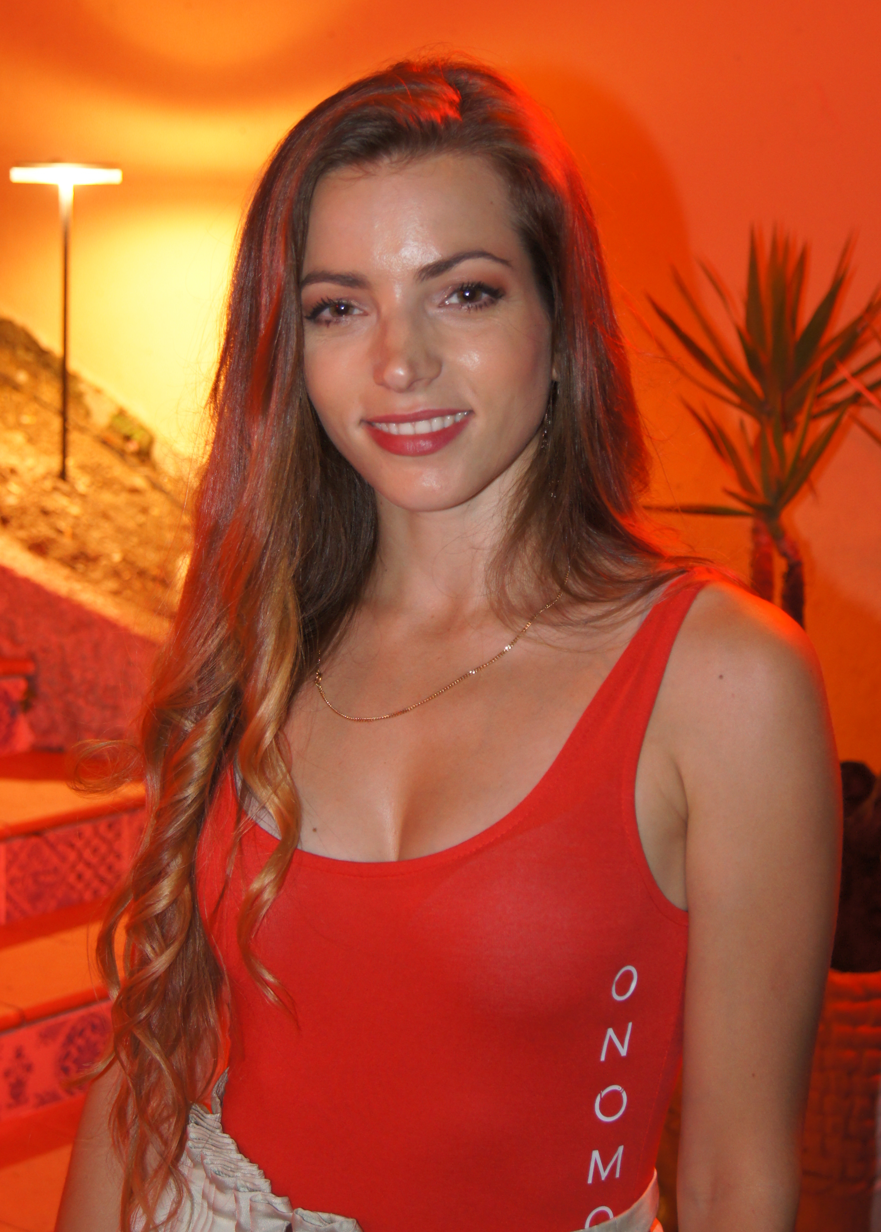 Italian actress Aurora Ruffino in Lago (Italy) during a fashon show